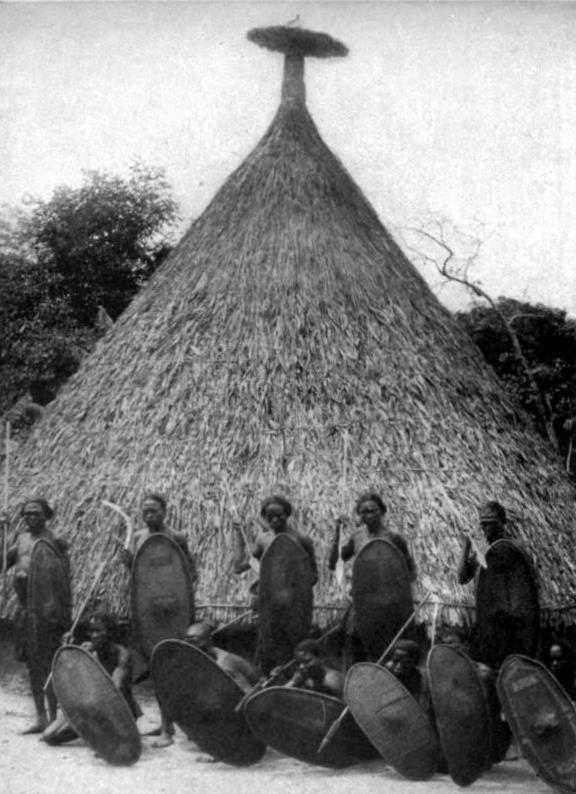 Group of Warriors, Djabbir - p. 164